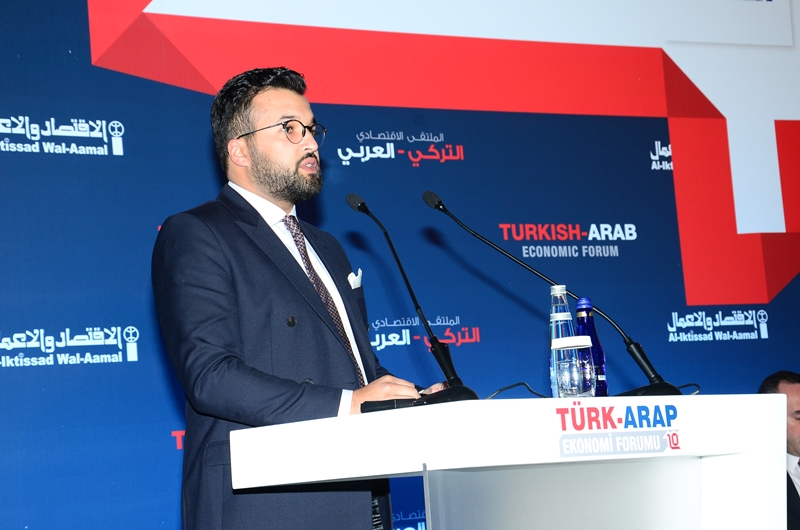 Turkish Arab Economic Forum